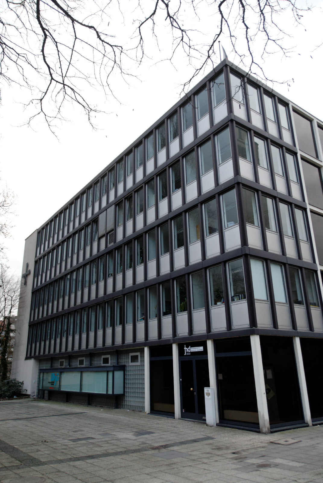 Jugendhaus in Düsseldorf-Pempelfort, Germany